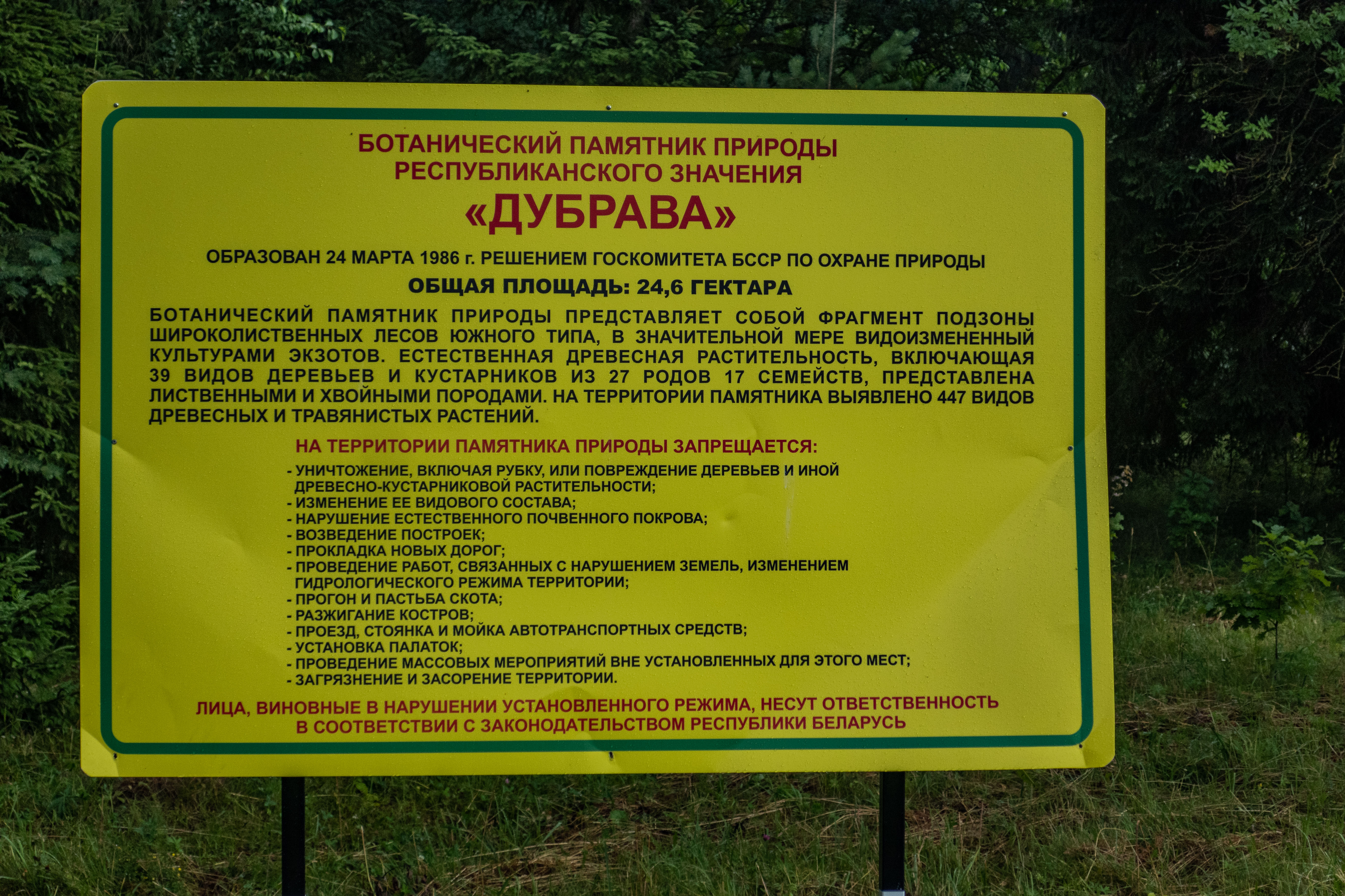 Republican natural monument "Dubrava Ščomyslickaja" (Oak grove of Ščomyslica). Minsk district, Belarus